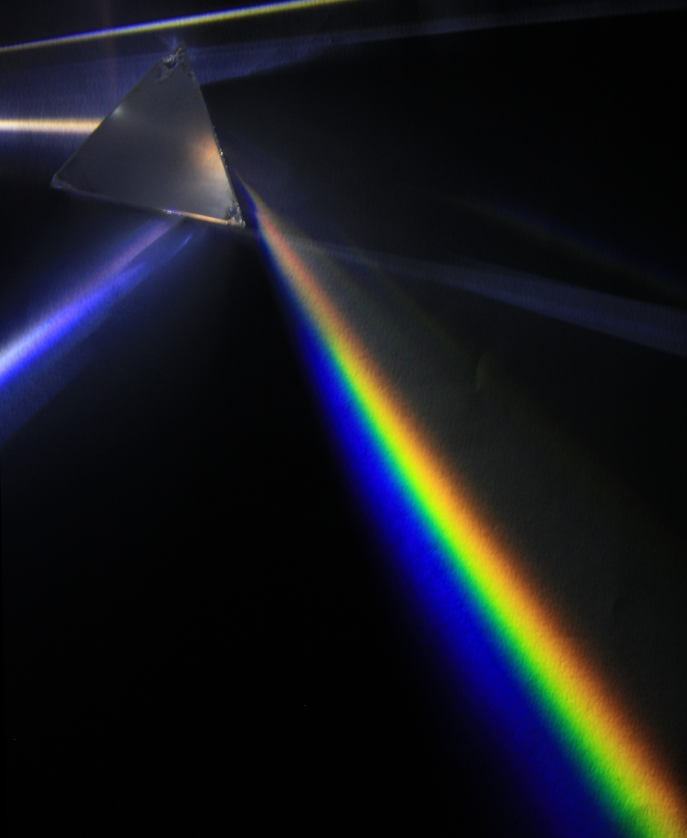 Light dispersion of a mercury-vapor lamp with a prism made of flint glass